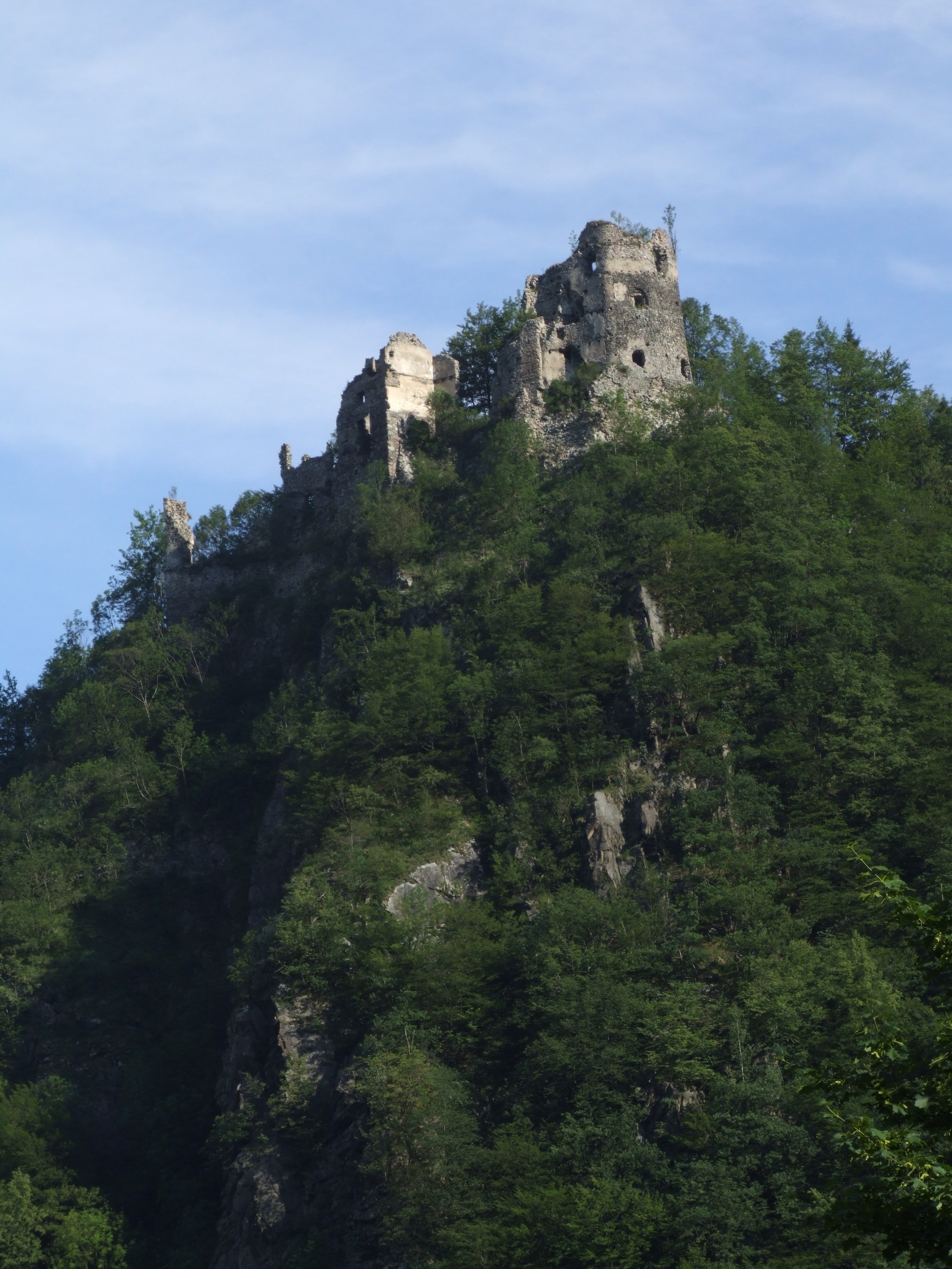 Castle Starý hrad in Nezbudská Lúčka, Slovakia